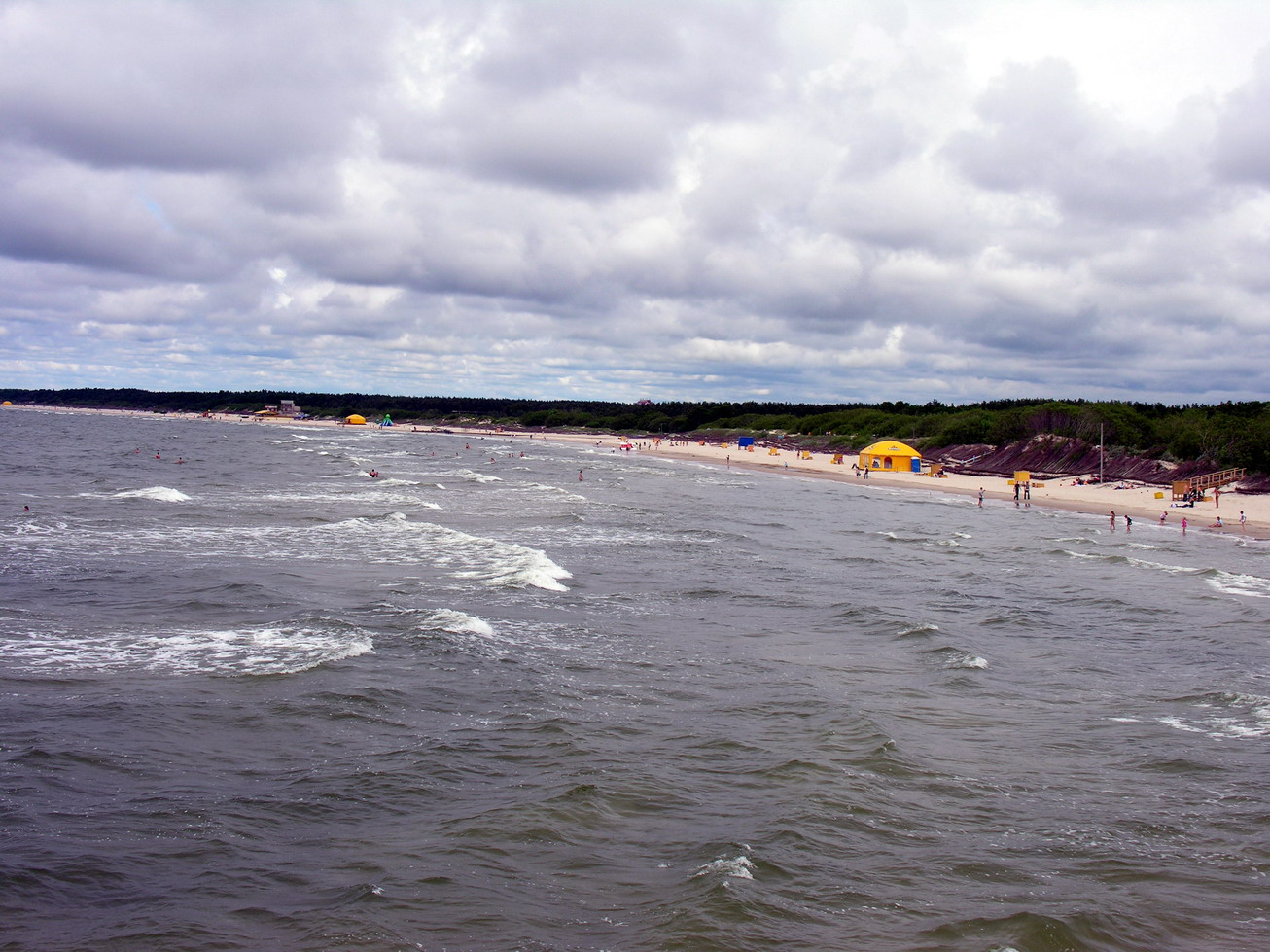 Baltic Sea near Palanga